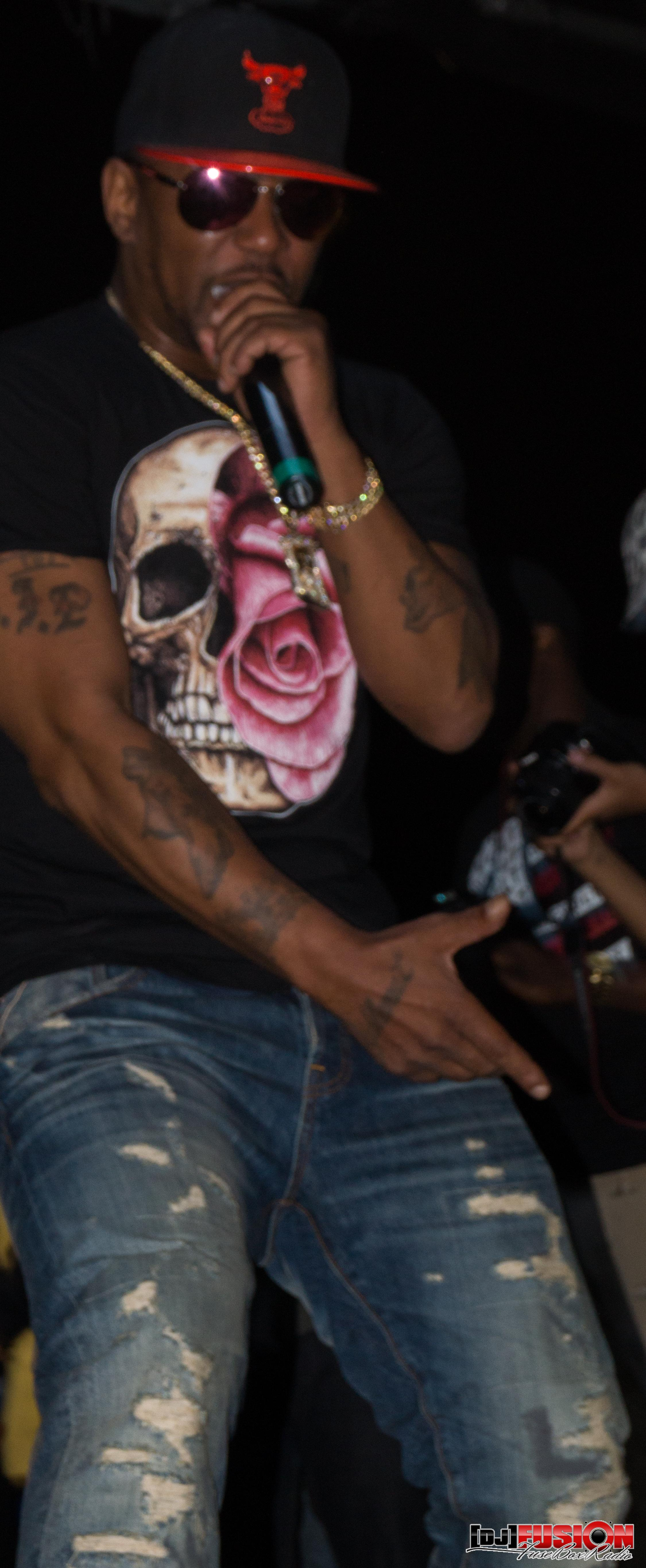 Cam'ron at the Broccoli City DC Festival.